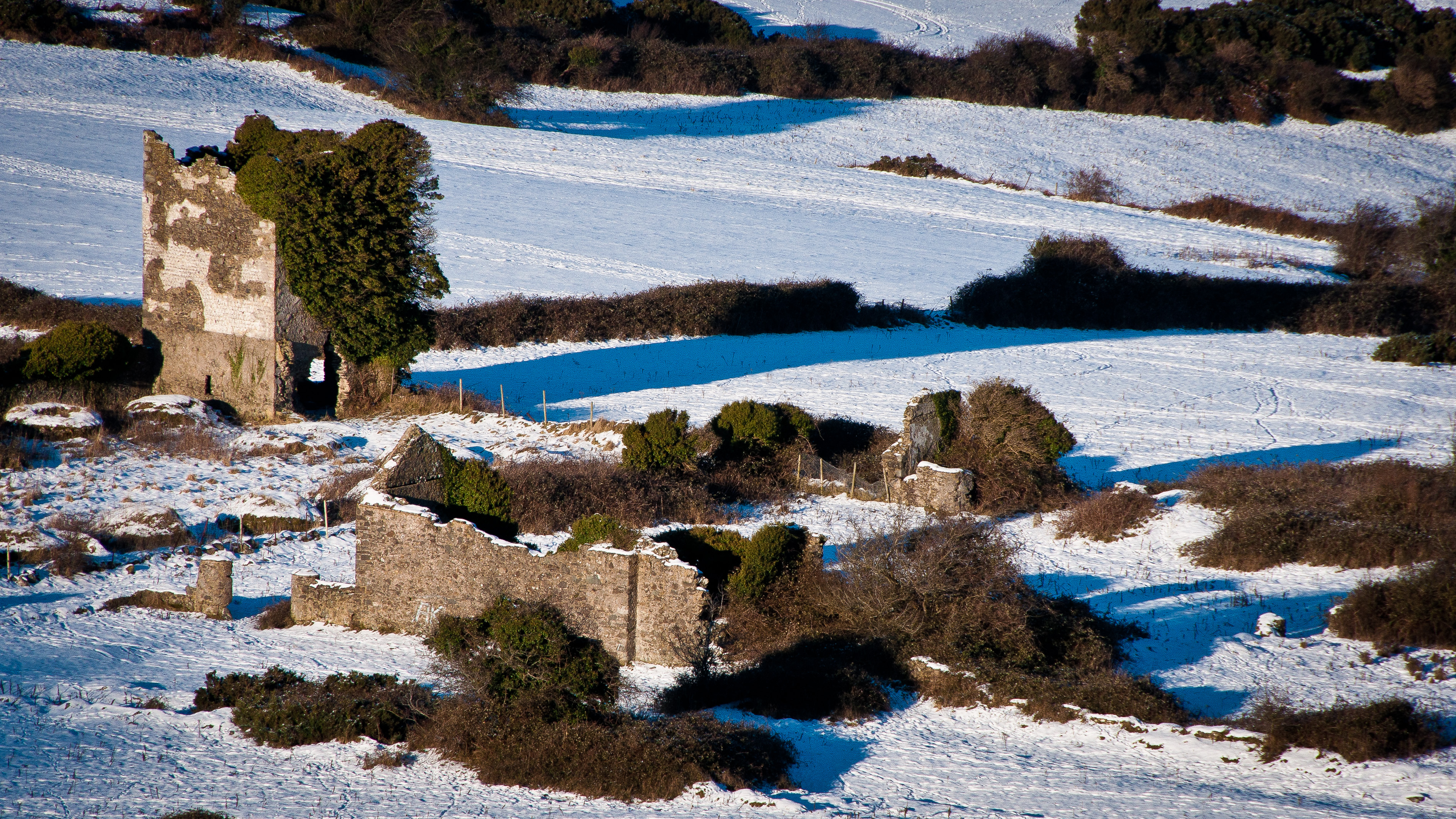 Carthy's Castle, the ruined remains of Dolly Mount, Lord Ely's hunting lodge on the slopes of Mountpelier Hill, Dublin, Ireland